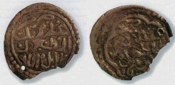 The first Ottoman coin by Osman Gazi Bey, the founder of the Ottoman Empire.